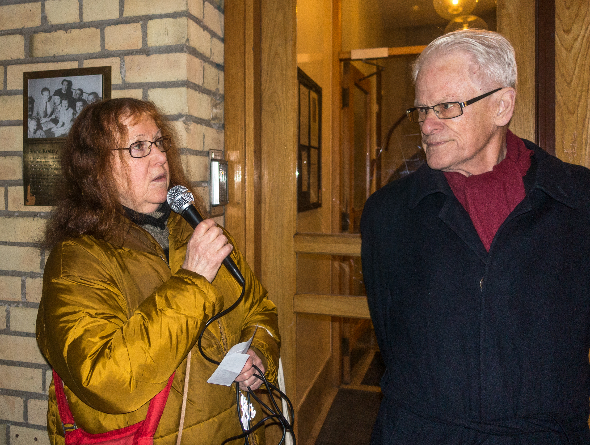 Chairman of the Workers' Cultural History Society, AKS, Kjersti Bosdotter and former Prime Minister Ingvar Carlsson at the inauguration of the Bruno Kreisky sign on Blekingegatan 57 in Stockholm on December 9, 2019.